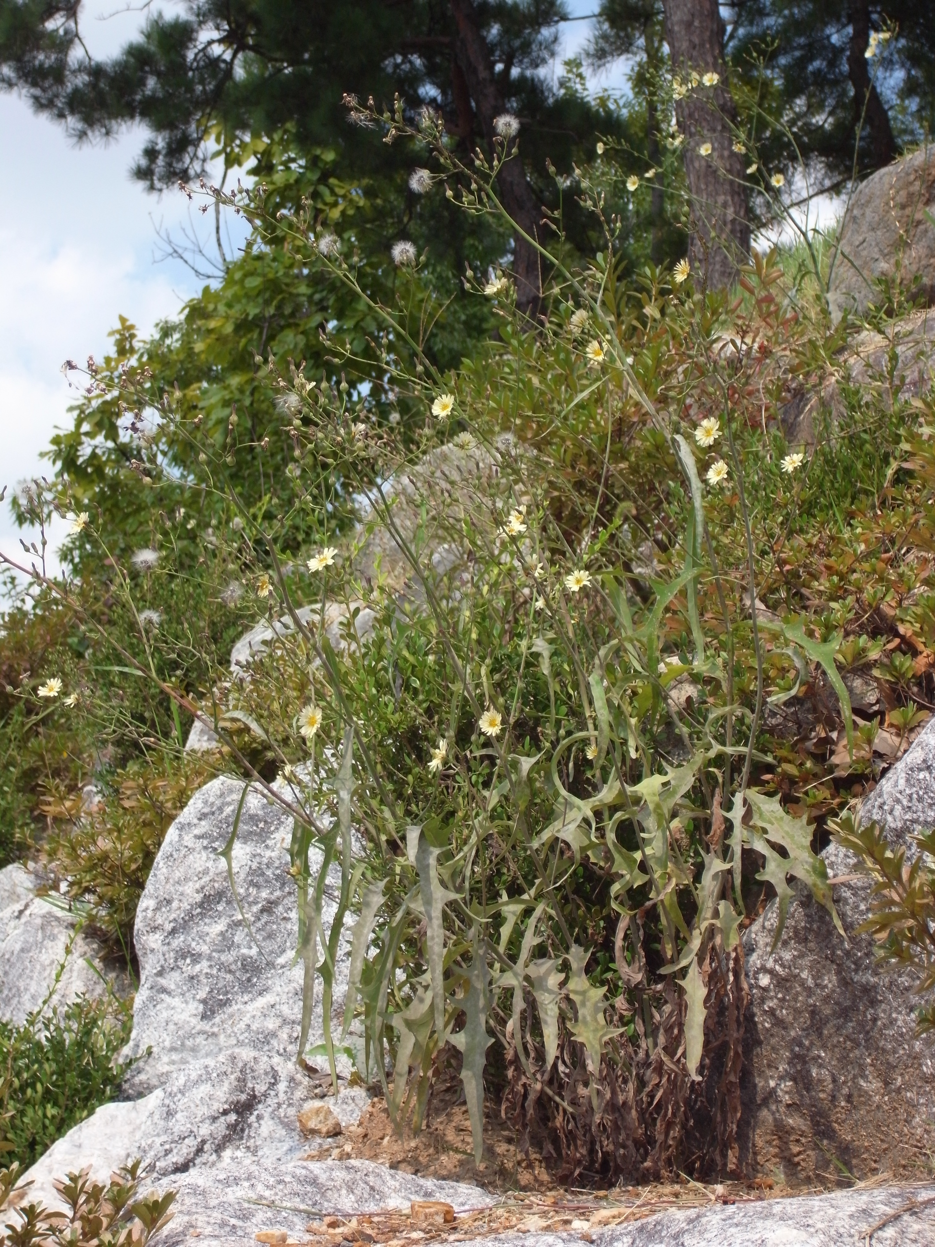 Lactuca indica in Ilsan, Korea